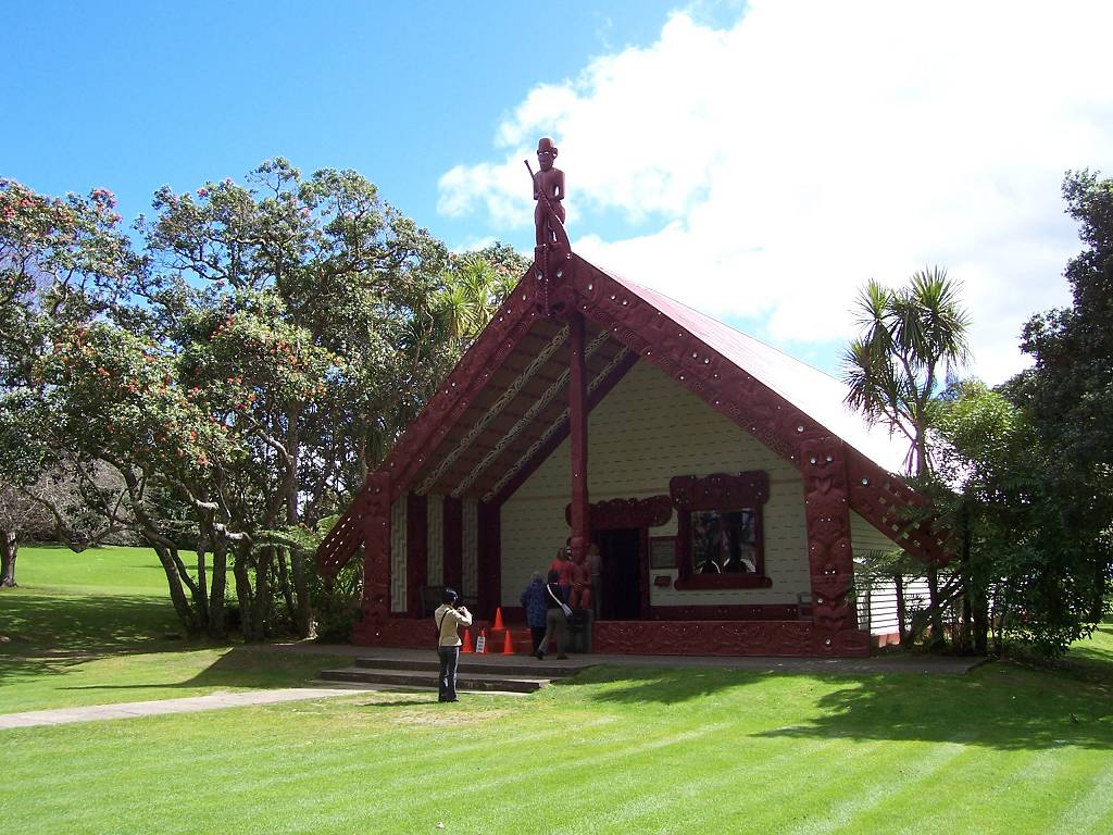 Te Whare Runanga (Meeting House) in Waitangi, New Zealand.